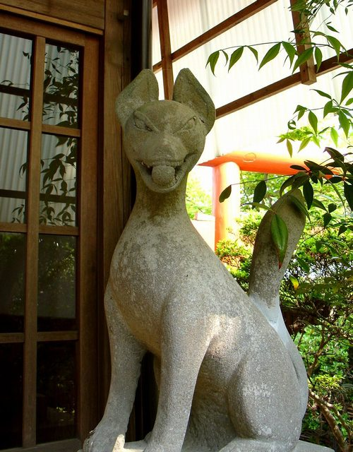 At Inari shrine there are usually two fox-statues. This is one of them.